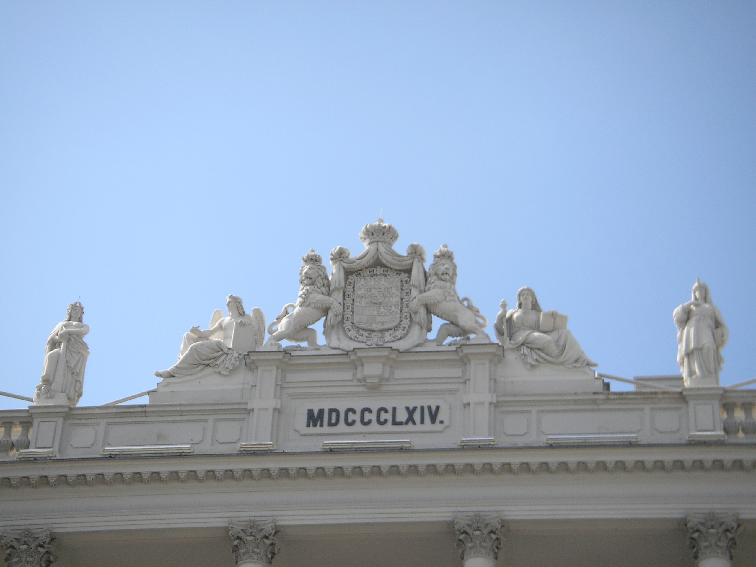 Detail of Palais Coburg, also known as Palais Sachsen-Coburg or Palais Saxe-Coburg. Built 1840-50 for Duke Ferdinand of Saxe-Coburg and Gotha on the Brown Bastion (Braunbastei), which itself dates from 1545-55.